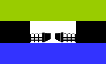 Flag of Busia County